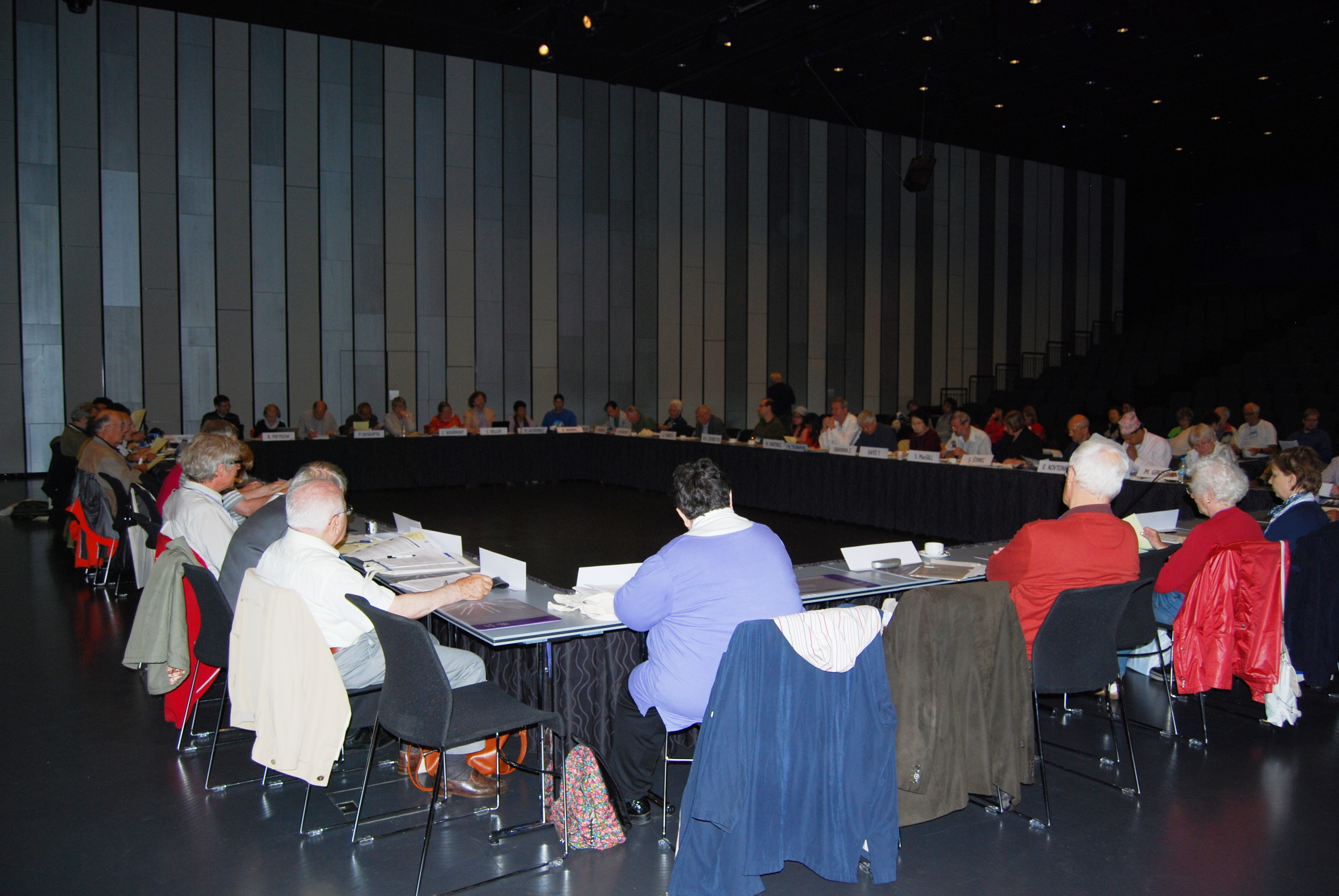 Commity meeting of Universal Esperanto Association, Reykjavík 2013